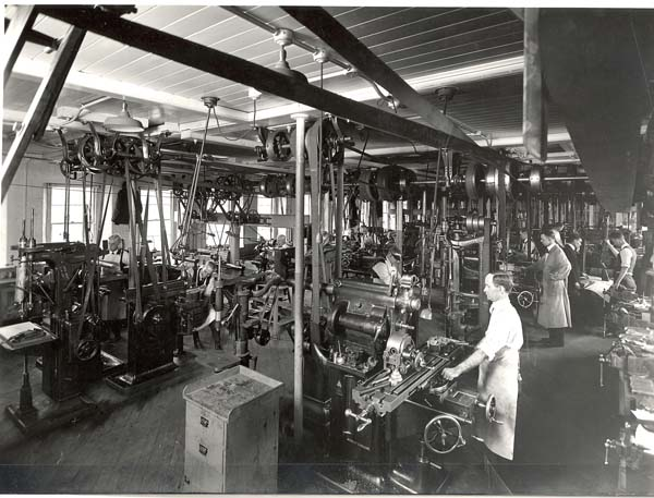 The Springfield Armory's experimental shop (in Bldg. 28) about 1923. it was in this shop that John C. Garand and his team developed and created his innovative weapons from the 1920's until Garand retired in the early 1950's. Garand may be seen in the right background in his coat and tie pointing at the blueprints on a table before a co-worker holding what appears to be the experimental Model 1923 Garand rifle.